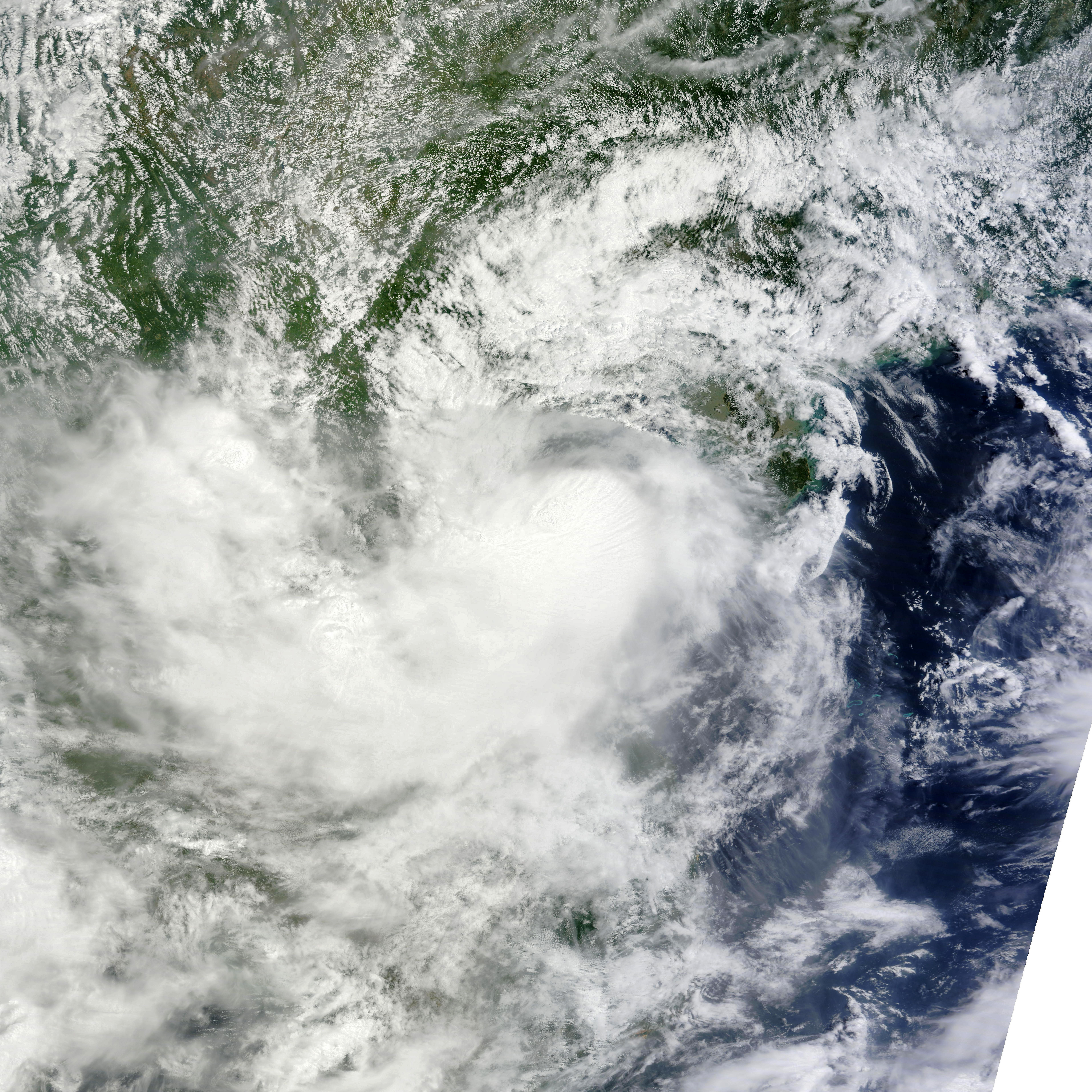 Tropical Storm Nock-ten on July 30, 2011